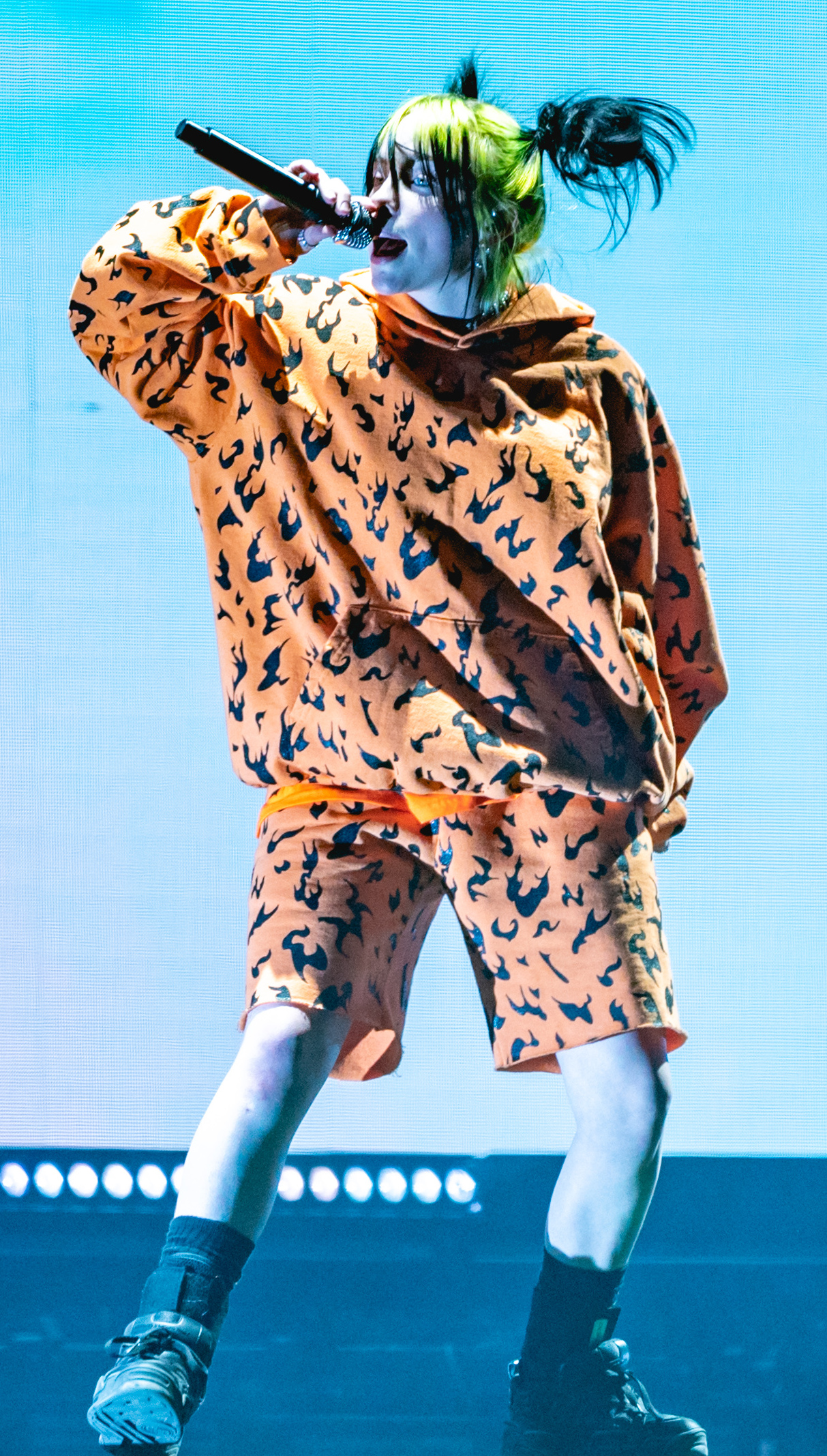 CoronaCapFest19-76